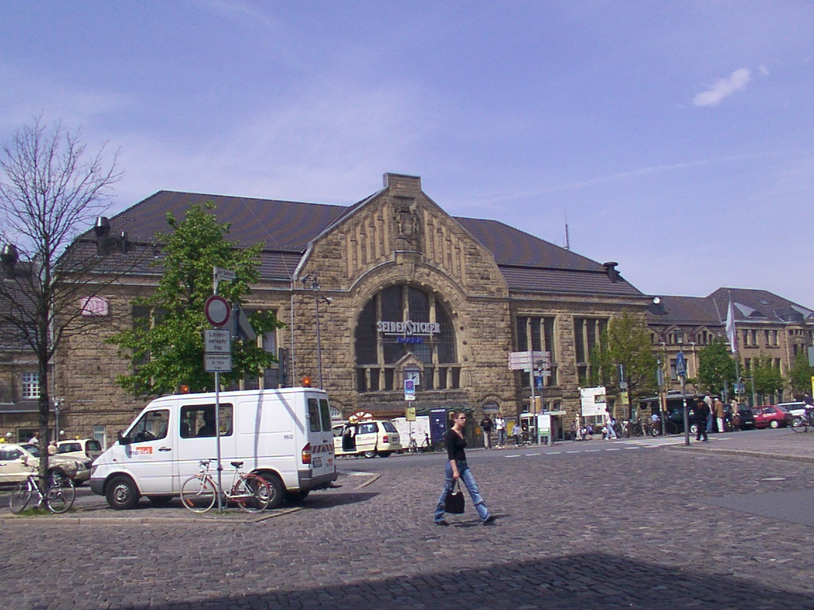 Bielefeld: main station, building constructed 1909/1910